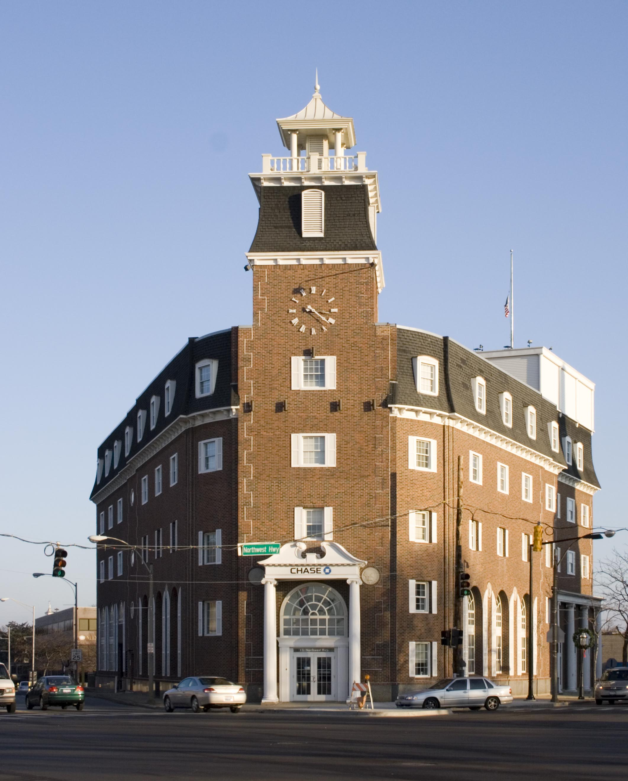 The Chase Bank branch located at the Six Points intersection in downtown Park Ridge, Illinois. Photograph taken January 6, 2007; processed in hugin to remove keystoning.